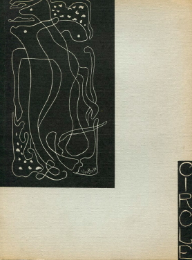 Cover of 2nd issue of Circle Magazine, 1944